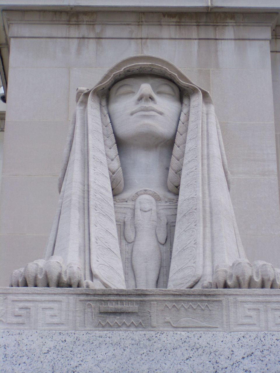 Wisdom Sphinx, by Adolph Alexander Weinman, en:1915, Supreme Council 33 - Scottish Rite of Freemasonry, Washington, DC Photograph by Dan Vera.